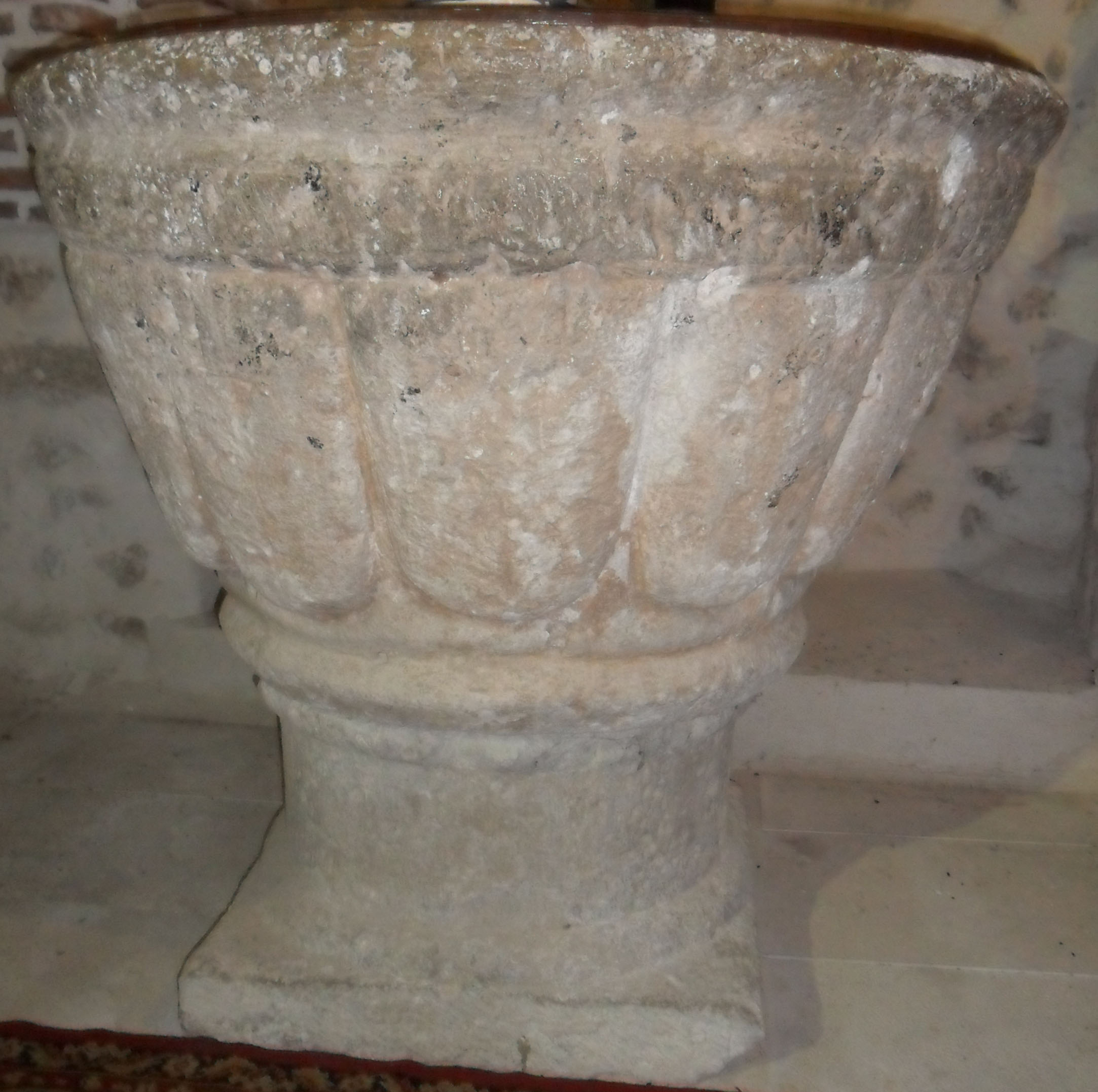 Medieval baptismal font. Santibáñez de Valcorba, Valladolid.Spain